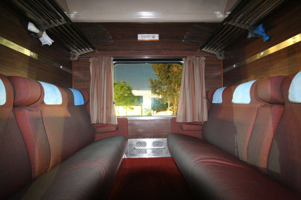 Interior of a BS type carriage. V/Line, Victoria, Australia